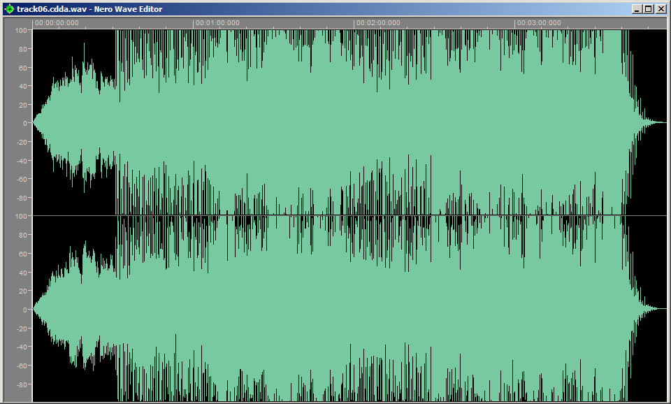 Screenshot of WAV file ripped from 2005 remaster (for Loudness War page)